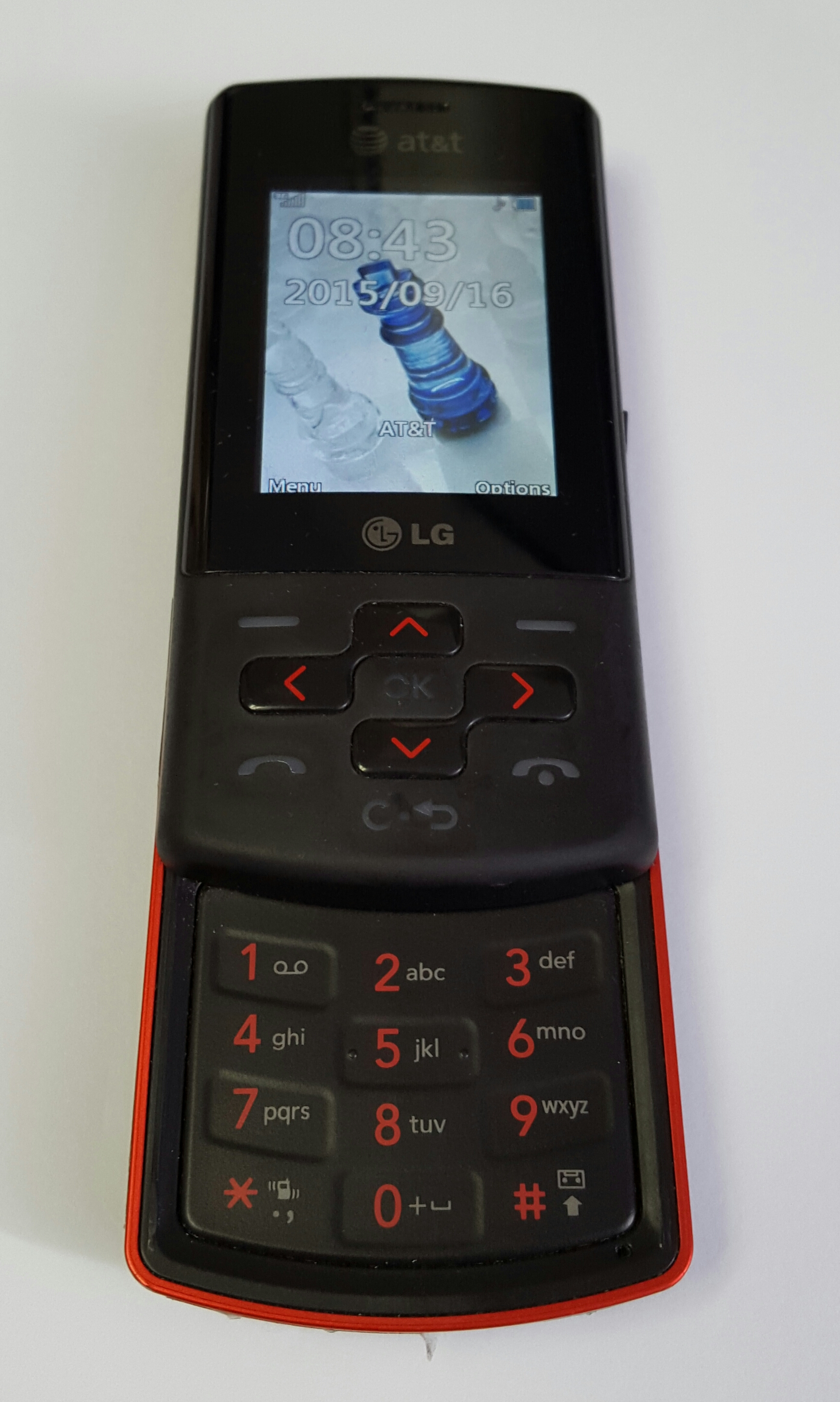 The LG CF360 with red numbers and accents. Other information Cropped from the original